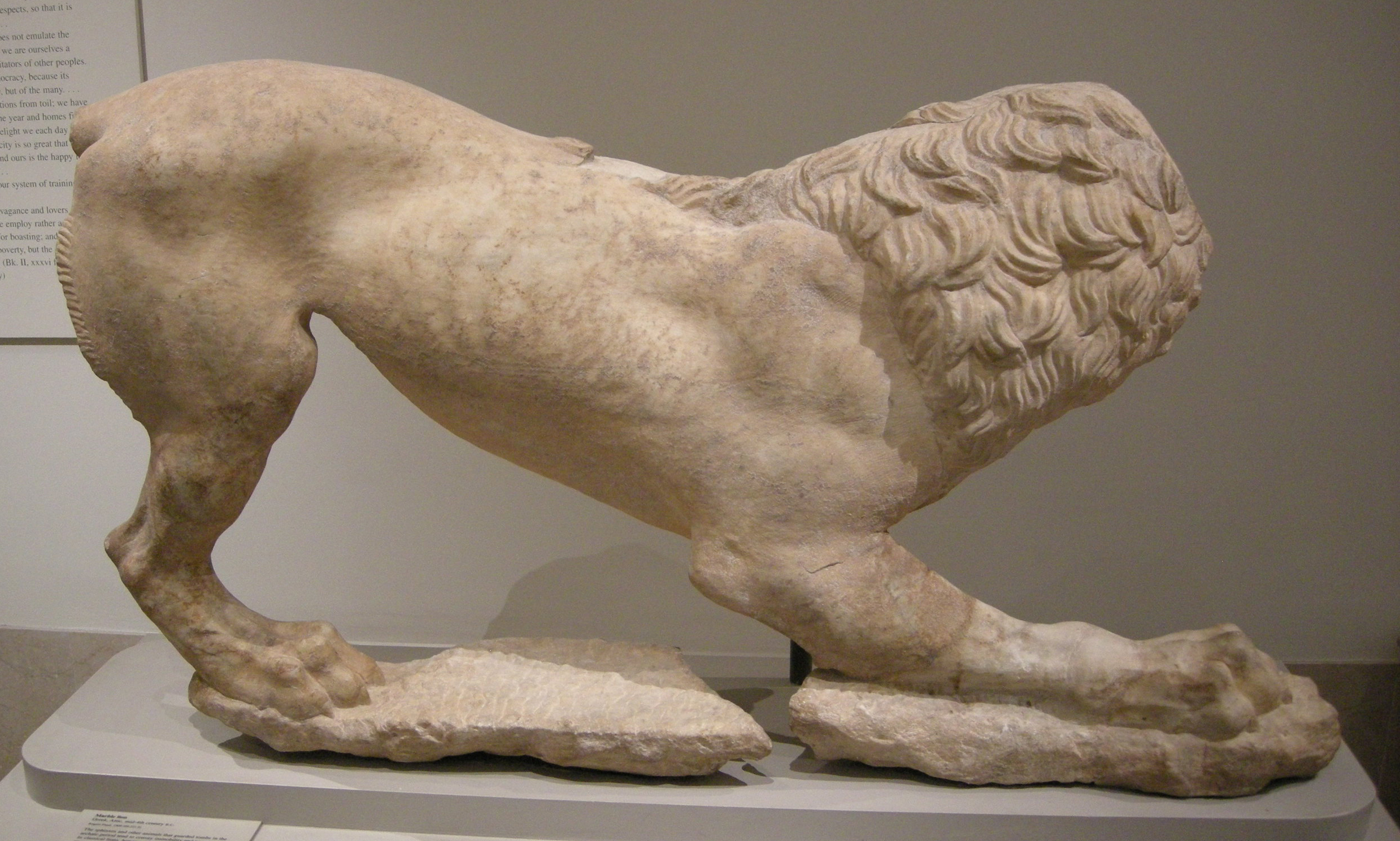 Met, greek, attic, marble lion, mid 4th century BC